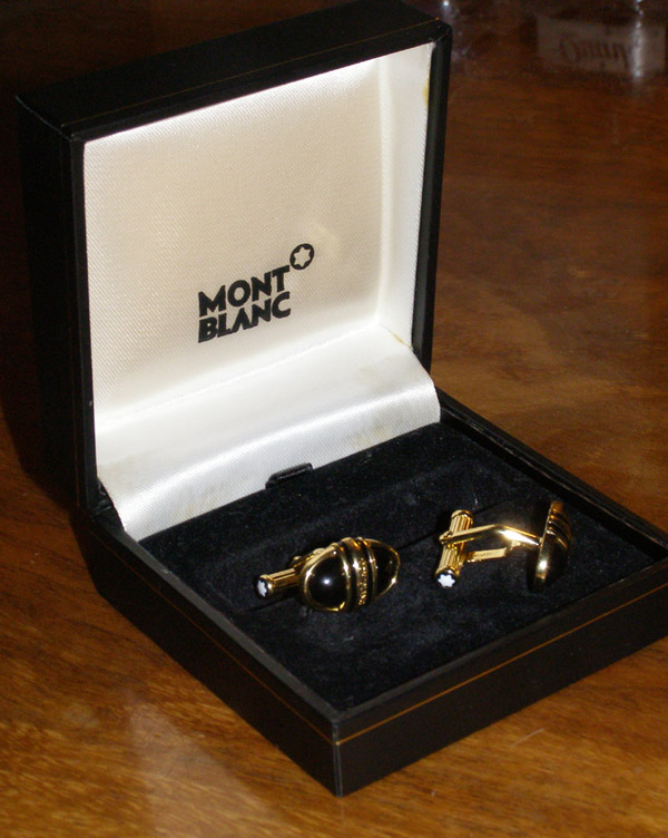 Montblanc Cufflinks Gold and Onyx